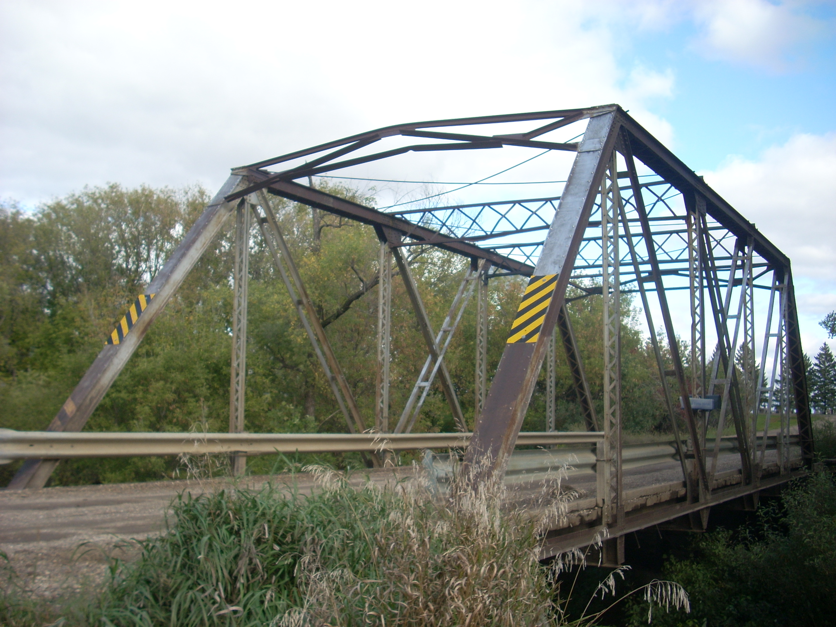 Ost Valle Bridge — a steel Pratt through truss bridge, in Thompson, North Dakota. Listed on the National Register of Historic Places in Grand Forks County, North Dakota in 1997.